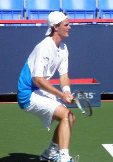 Jamie Murray in Montreal Roger's Cup 2007.